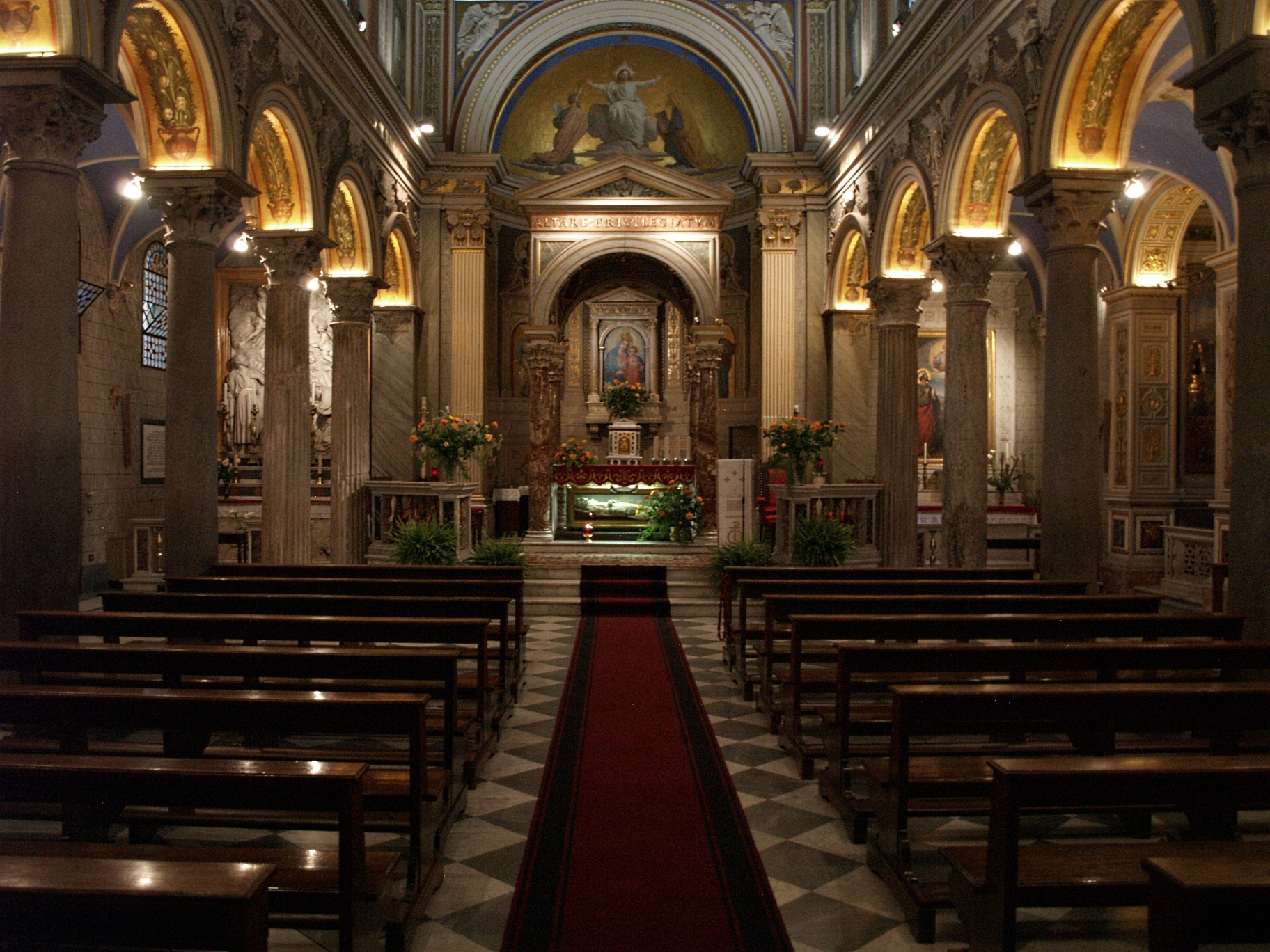 The Catholic church San Salvatore in Onda in Rome